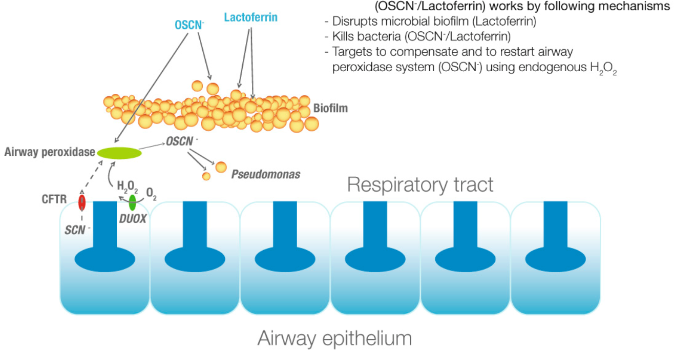 Free of any rights. Granted by the author of the drawings (Alaxia) Can be also found on